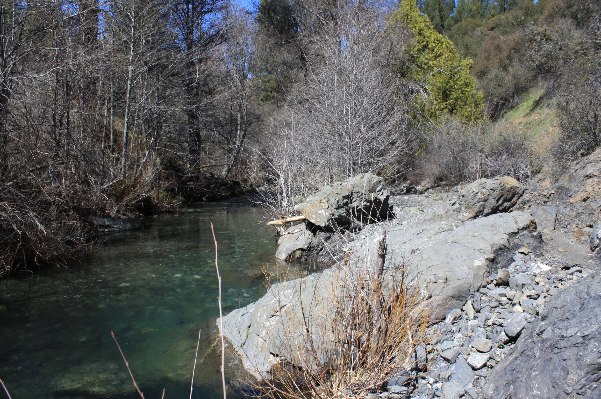 Crabtree Hot Springs trailhead at Rice Fork of the Eel River, Mendocino National Forest, Lake County, California